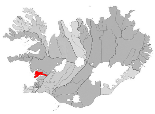 Based on Municipalities of Iceland.png.